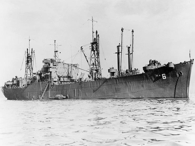 The U.S. Navy attack cargo ship USS Alchiba (AKA-6) photographed circa 1945.